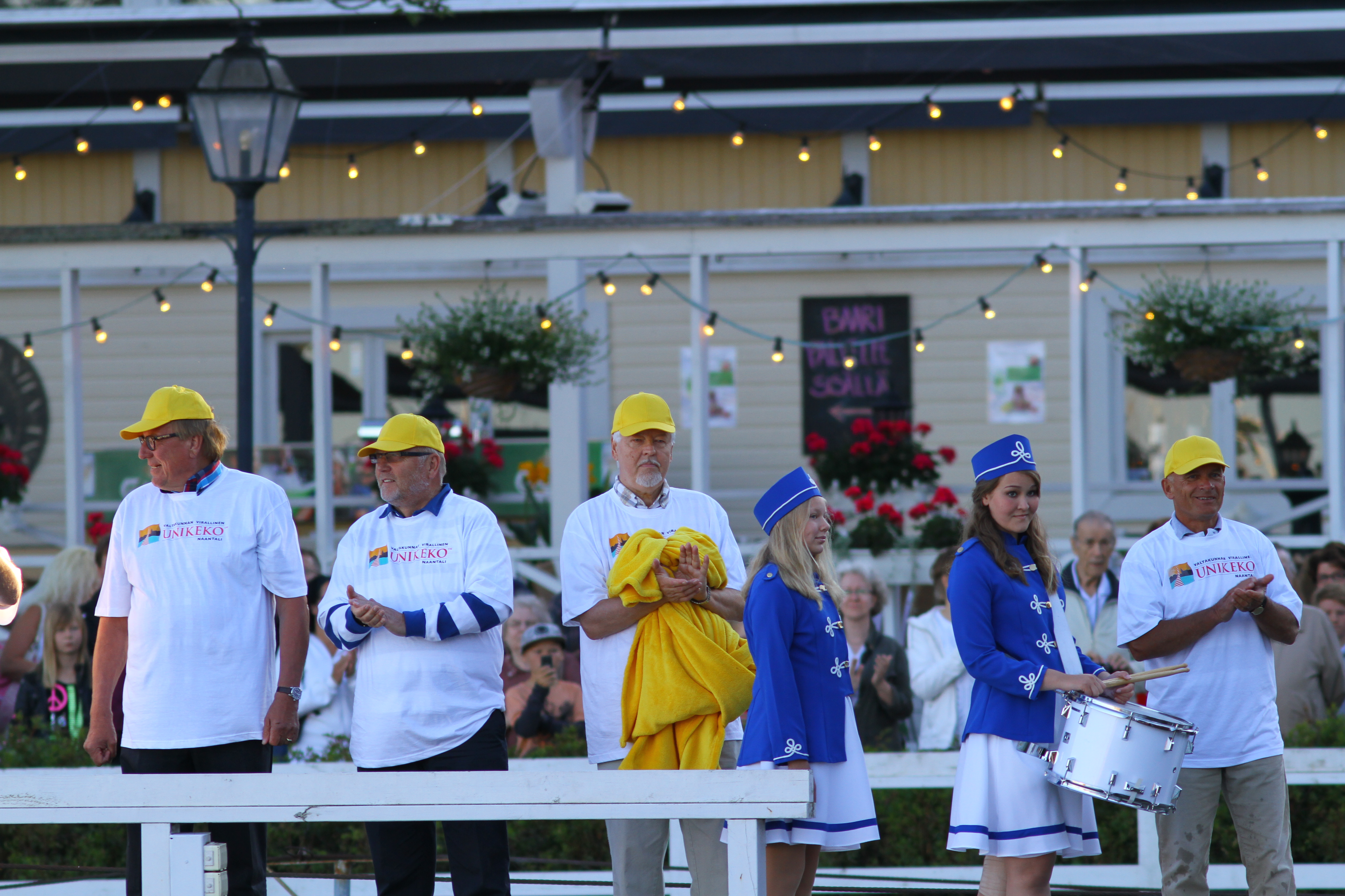 National Sleepy Head Day (Finnish: Unikeonpäivä) in the city of Naantali, Finland.